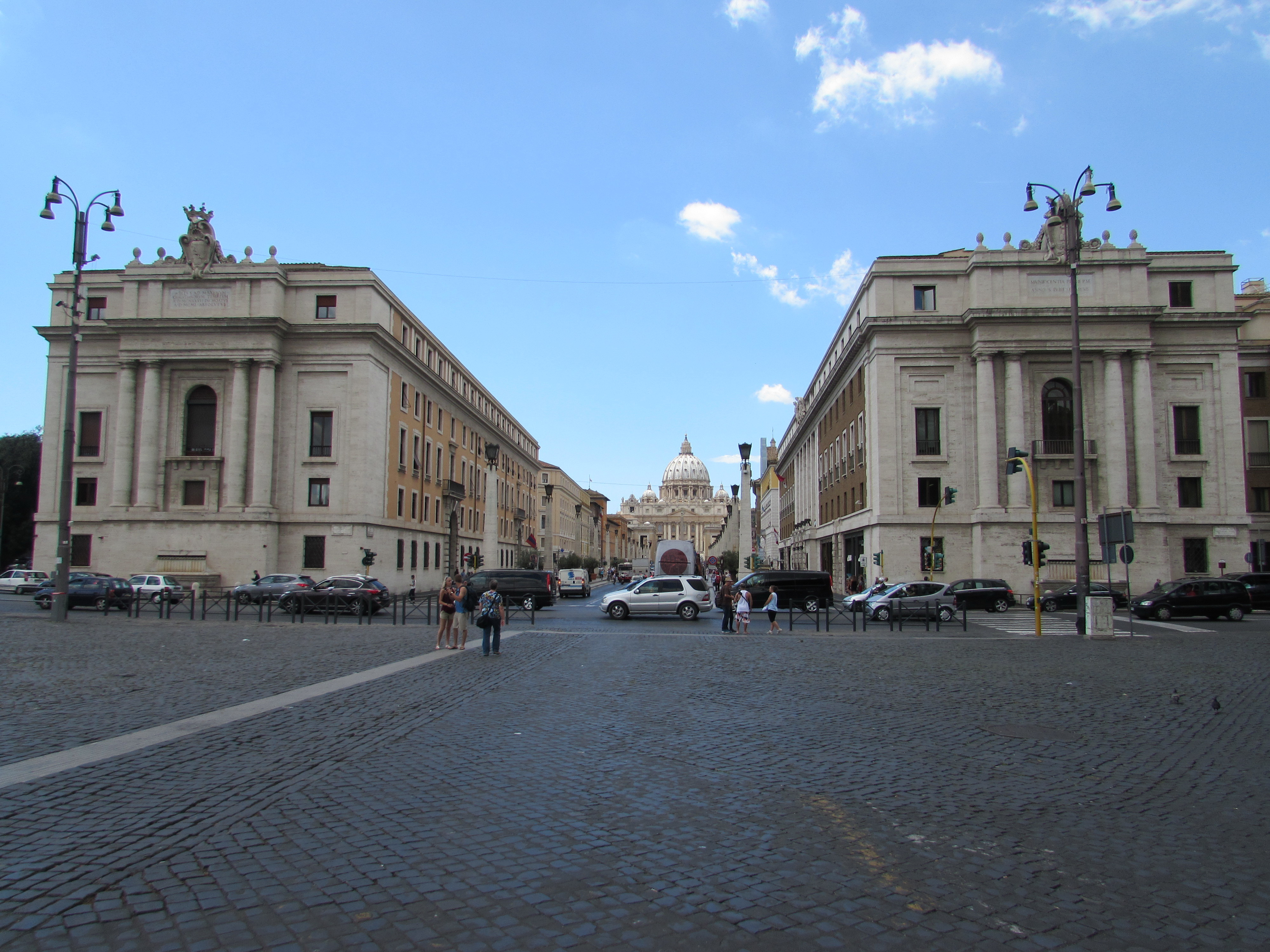 Via della Conciliazione (Rome). Right building: Palazzo Pio